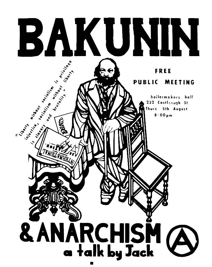 Bakunin and Anarchism Poster produced for a talk by Jack Grancharoff in Sydney, Australia